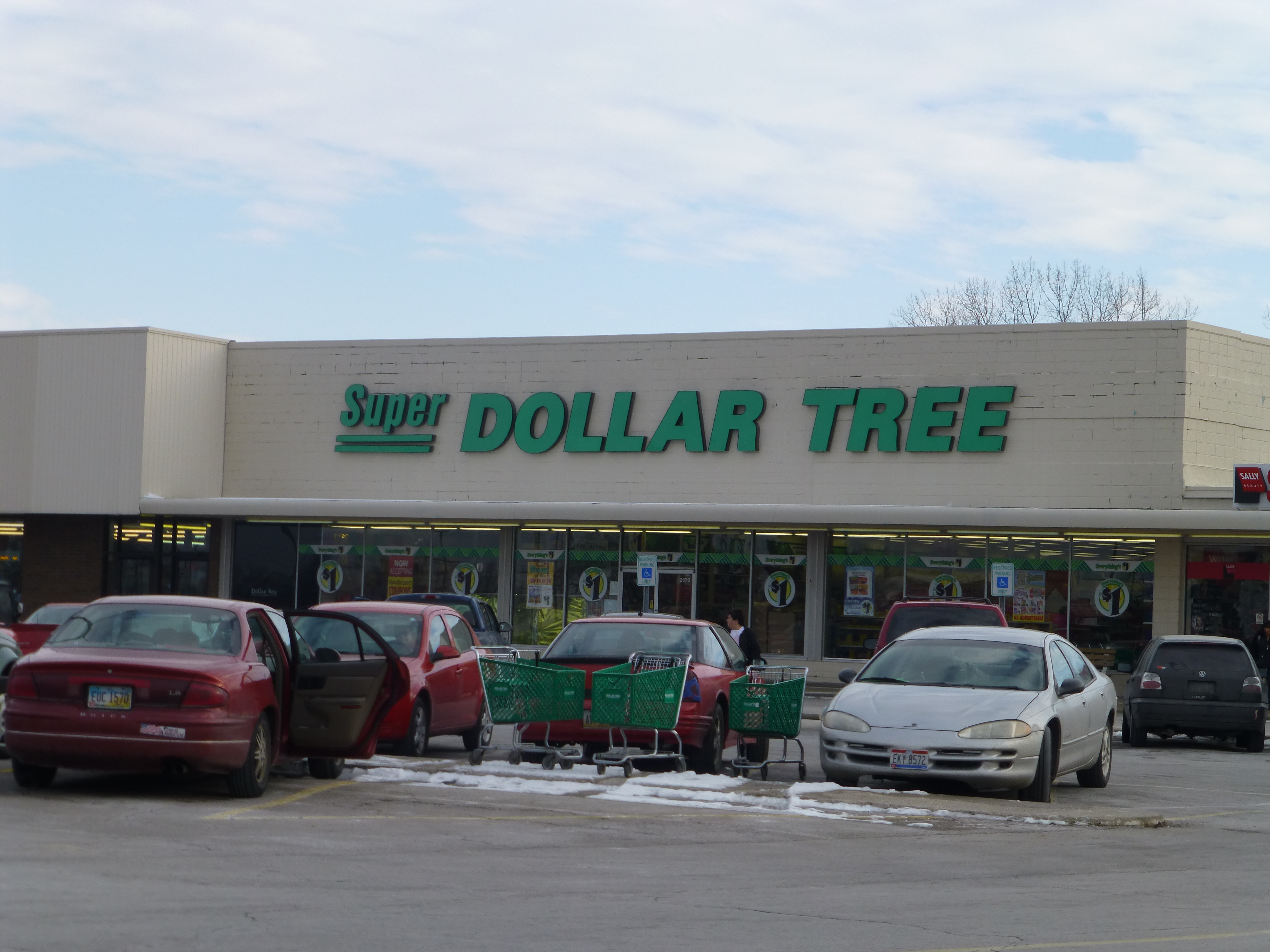 This is the only store that continues to use the defunct Super Dollar Tree banner; it is located in Northwood, Ohio.